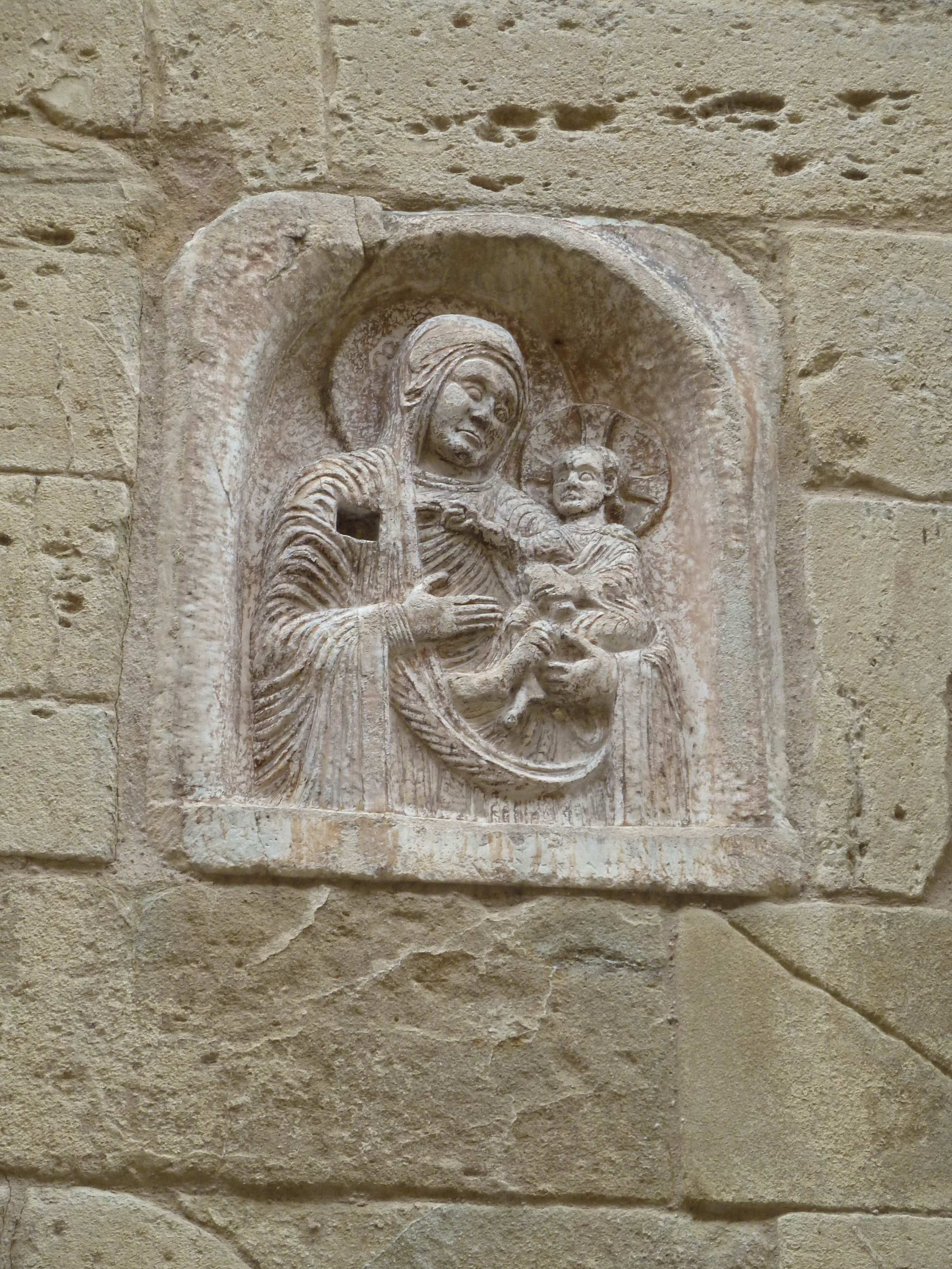 Church of San Michele (Pavia, Lombardy). South Transept. Bas-relief.